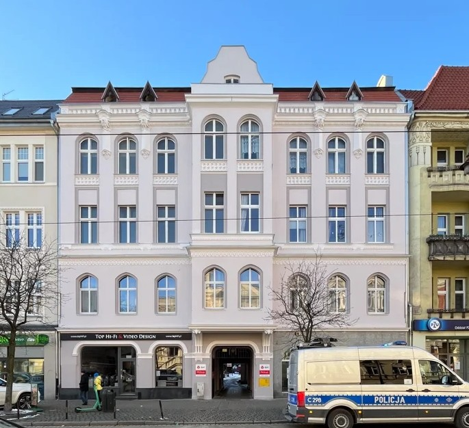 Main facade